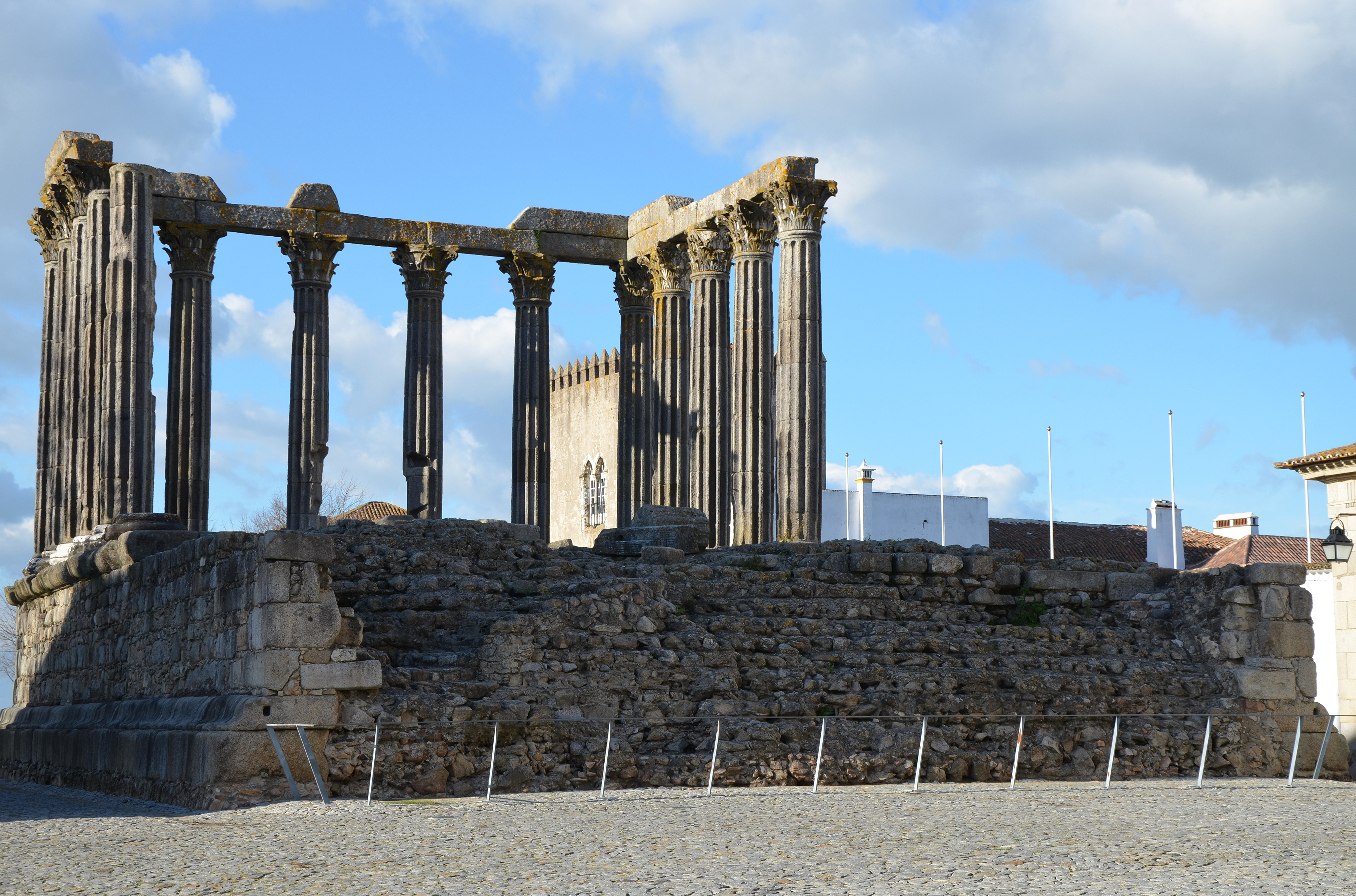 The Roman Temple of Évora, Ebora, Lusitania, Portugal